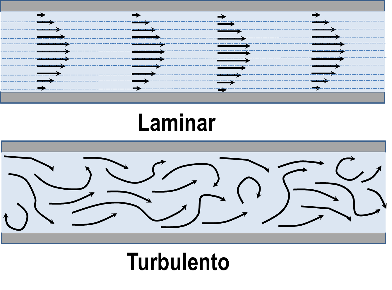 Transition from laminar flow to turbulent flow